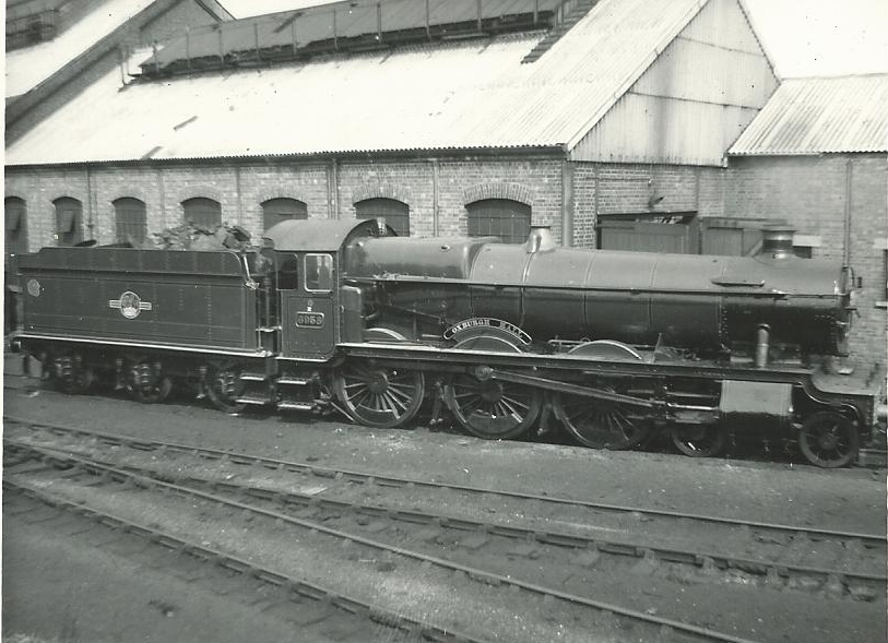 GWR Collett "49XX" or "Hall" 4-60 No.6958 "Oxburgh Hall" with Collett 4,000 gallon tender and narrow chimney indicating improved draughting whilst it also appears to have been refitted with a 3-row superheater, in ex-works condition at Bristol St. Phillips Marsh Shed, c.1963. Scanned from a photo taken with a Brownie 127.